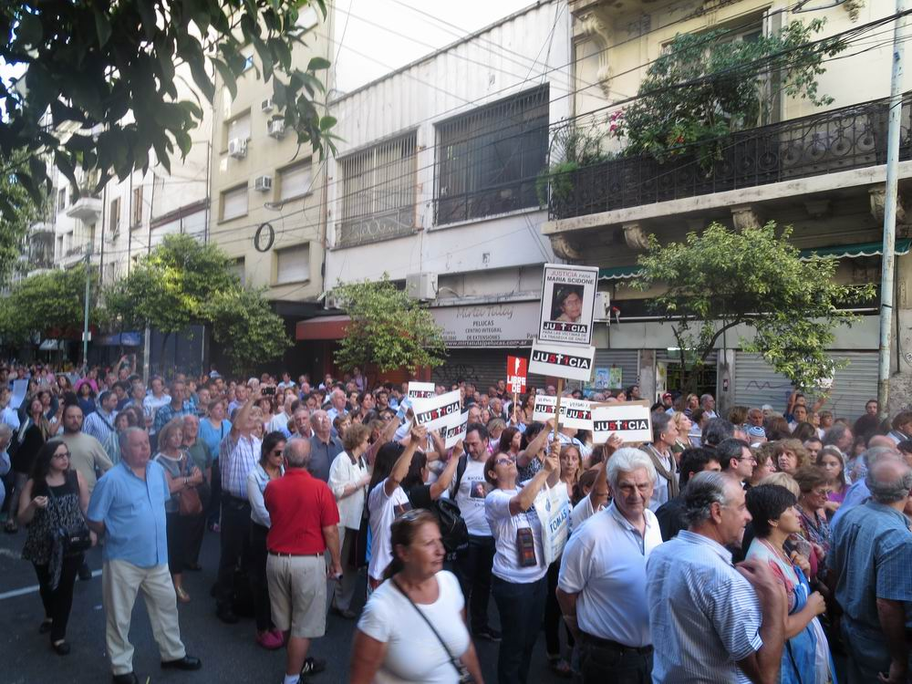 Argentines have been taking to the streets in 2015 to demand justice for the dead prosecutor Alberto Nisman